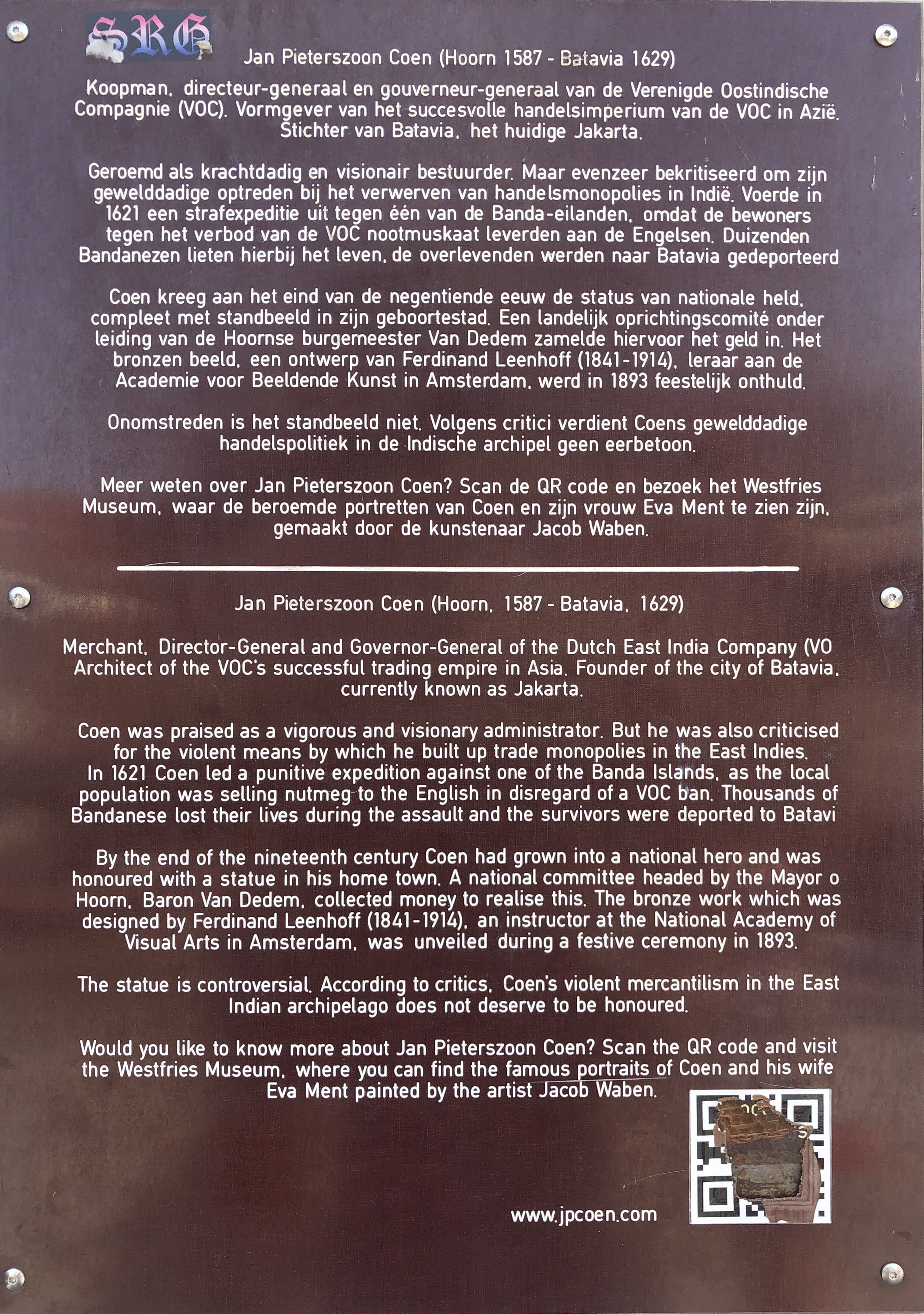 This plaque was added to the statue in 2012 in response to complaints that JP Coen had been a very brute despot, and shouldn't be honored with a statue. The city council chose to add a description instead of removing the statue.